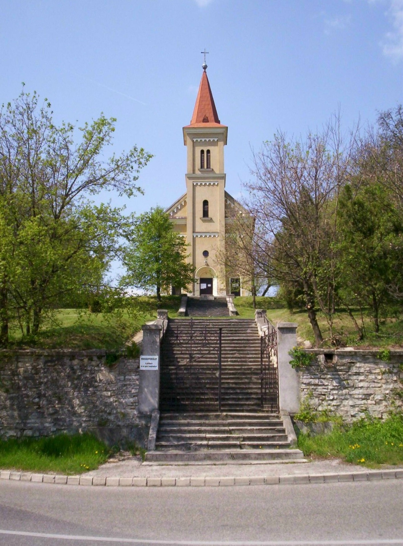 St. László Church, Veszprém